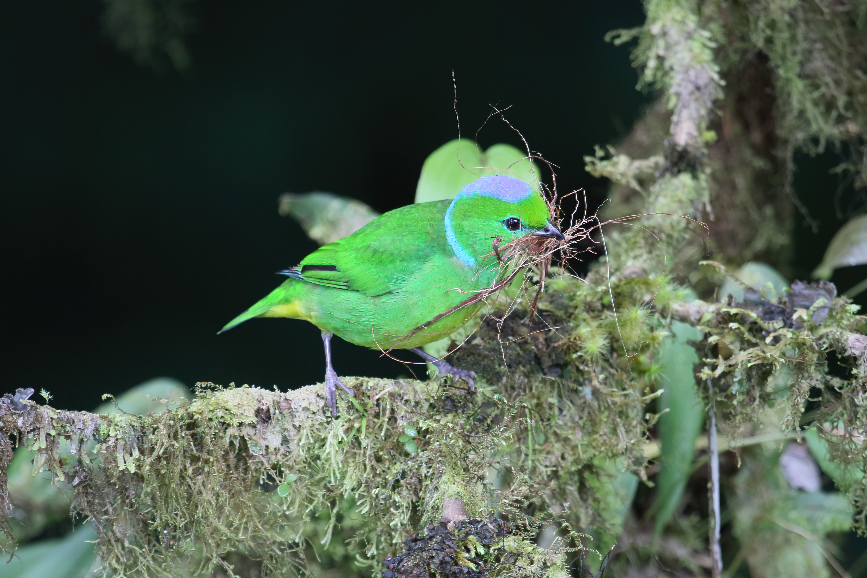 Golden-browed chlorophonia, Monteverde, Costa Rica